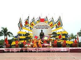 lễ hội